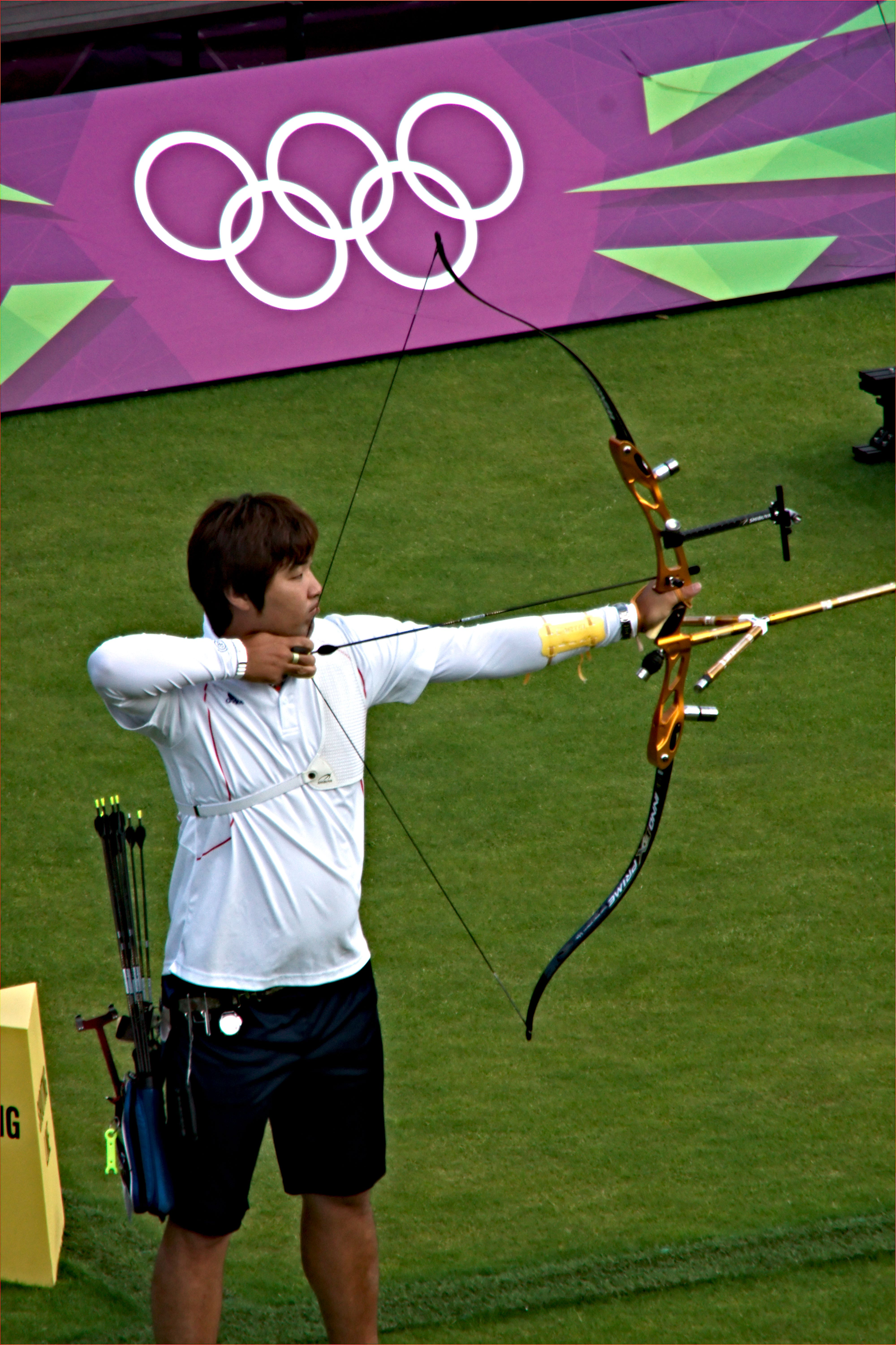 Shooting in the last 16